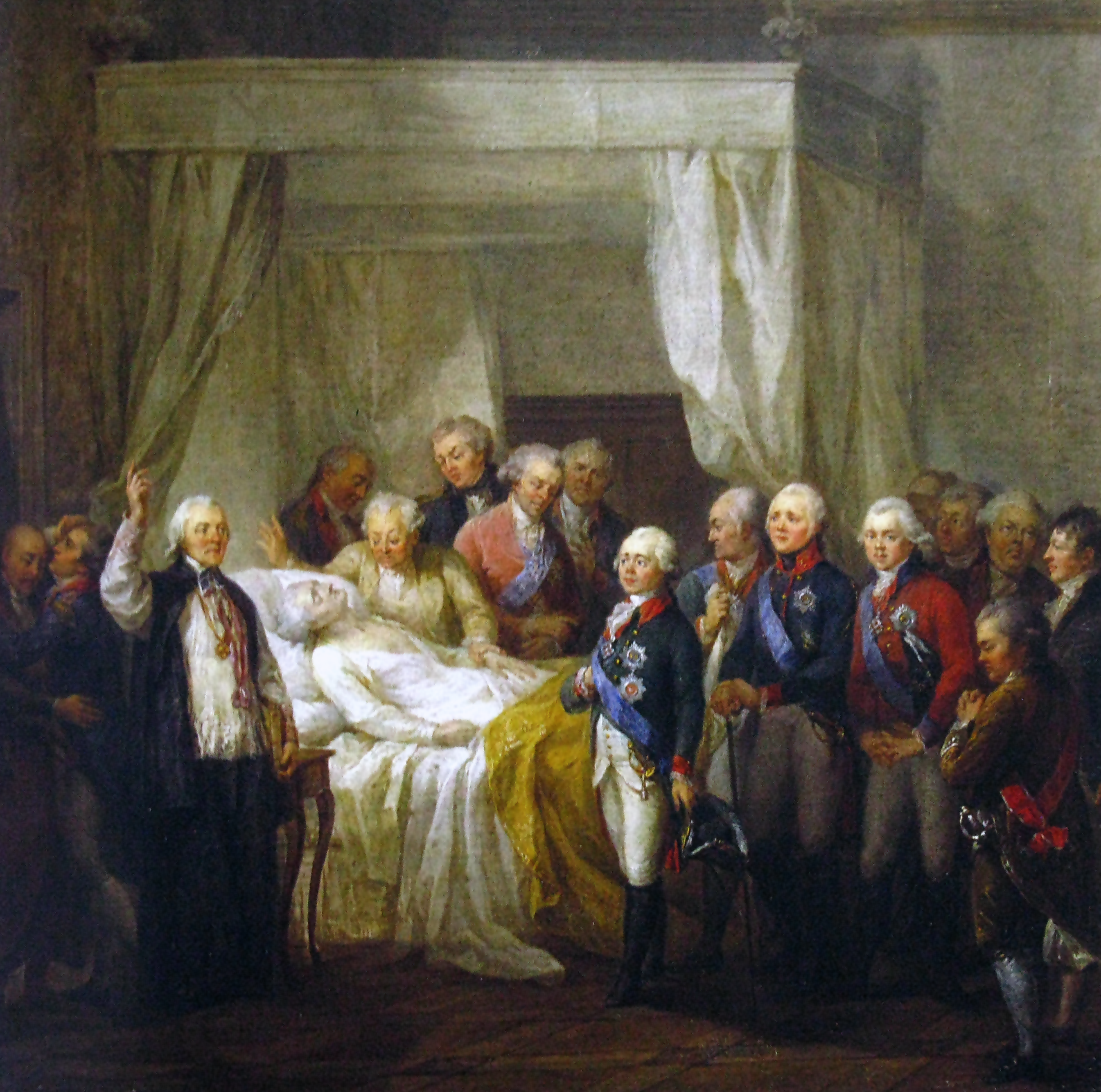 Death of Stanisław August Poniatowski